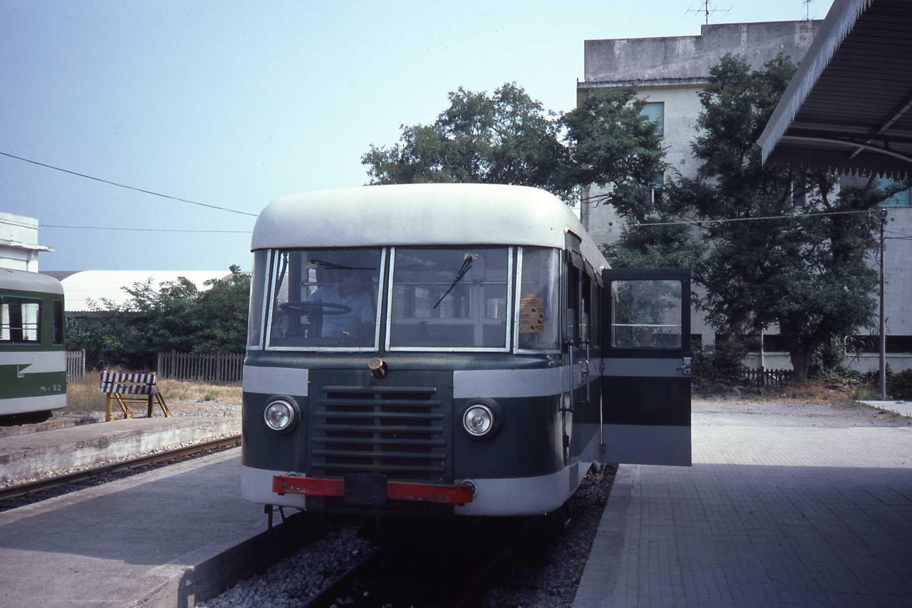 Ferrovie Calabro Lucane (FCL) rack raylway railcar number M1c 82 serie M1 with bus elements. Has only one driving position and is turned around at termini by its own built-in turntable. This has to be done by hand! station: Catanzaro Lido